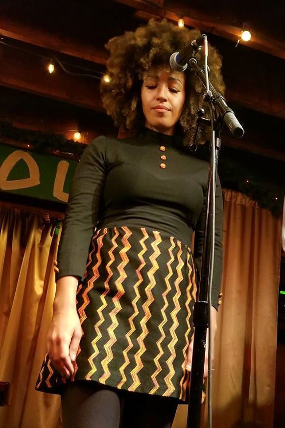 Tawny Newsome at the Hideout Inn on January 18, 2018